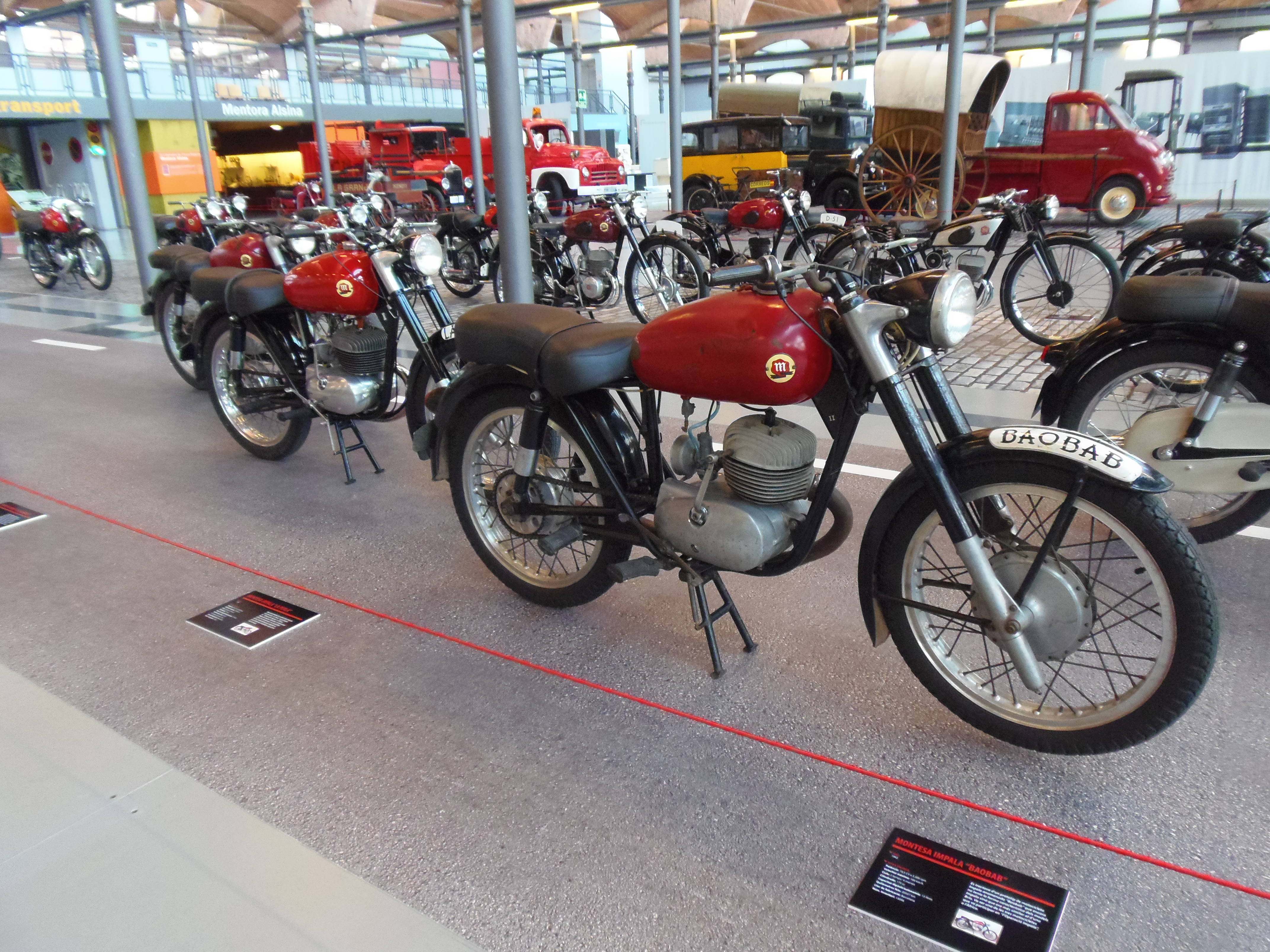 From left to right: Montesa Impala 175cc "Lucharniega", "La Perla" and "Baobab", the 3 participants in the "Operació Impala" that travelled 20.000 km across Africa in 1962